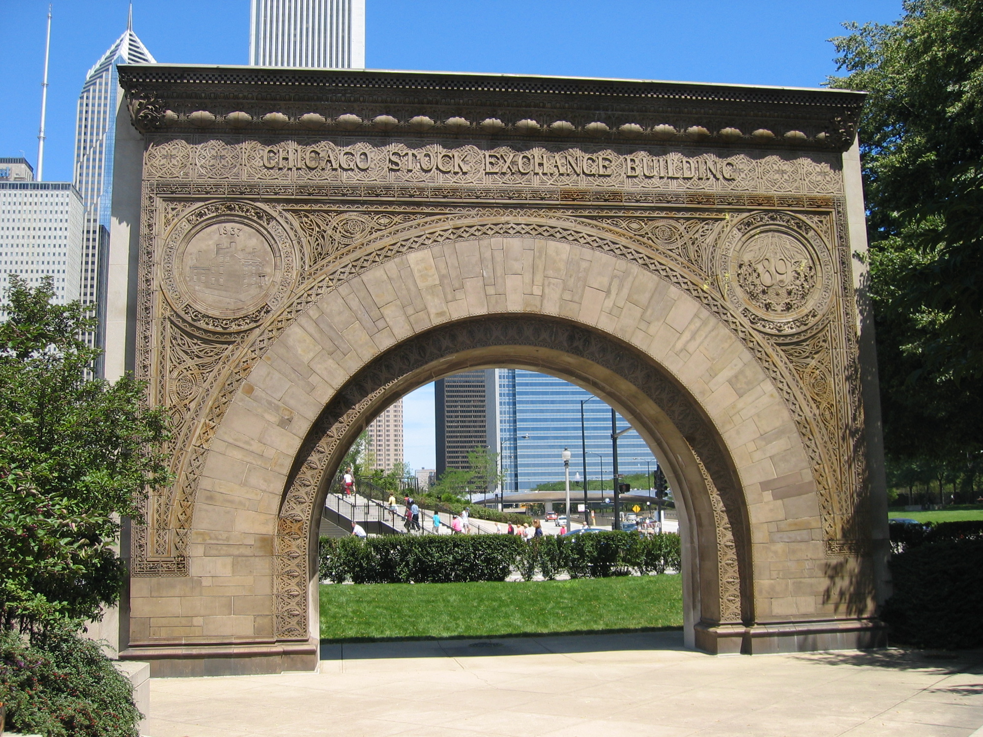 Former entrance to the Chicago Stock Exchange designed by Louis Sullivan. Now at the Art Institute of Chicago, Chicago, Illinois.